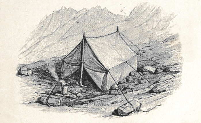 Sketch of a Mummery tent from page 63 of Mountaineering, by C.T.Dent. Longmans Green, 1892